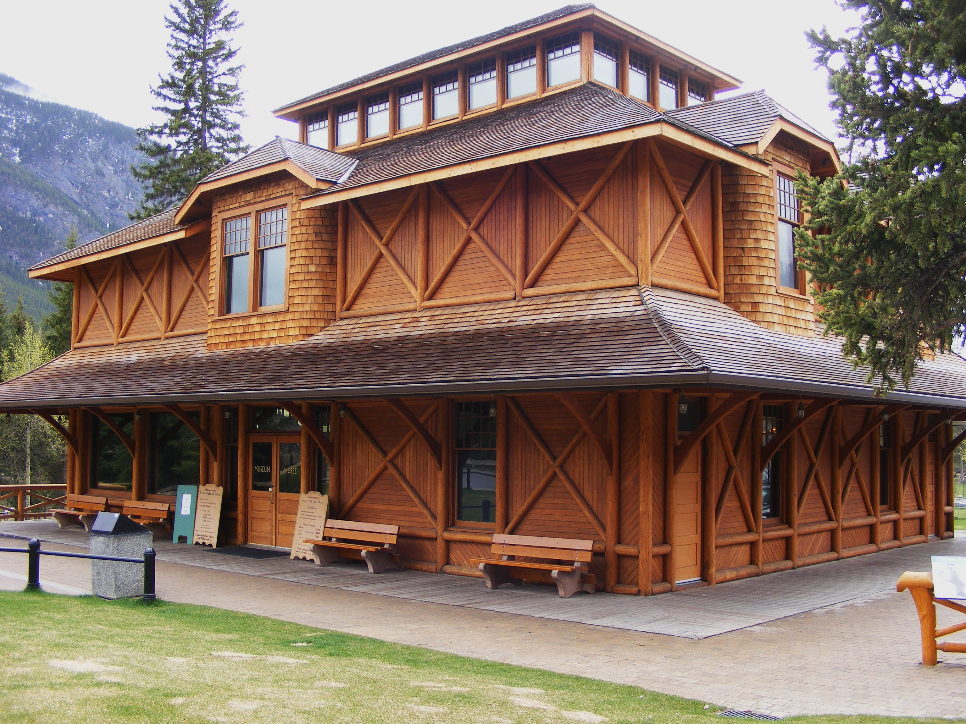 The Banff Park Museum National Historic Site in Banff, Alberta, Canada. Location on the Banff historical walking tour